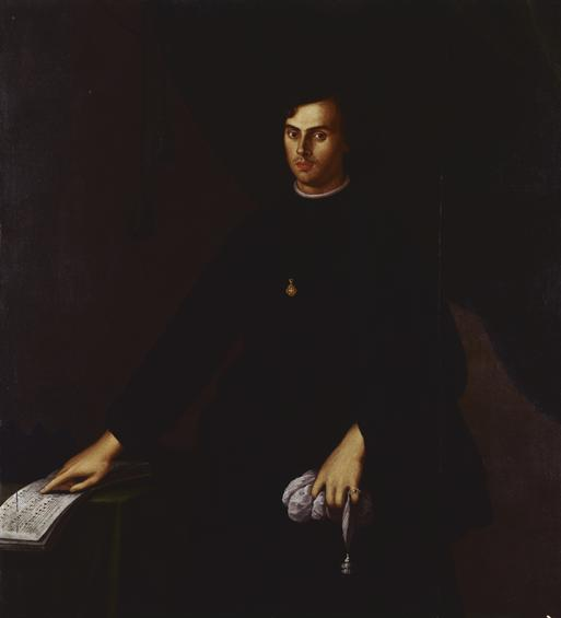 Museu de Evora